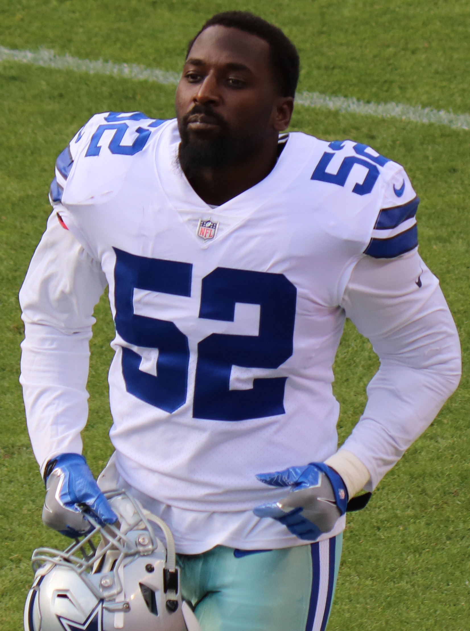 Justin Durant, a player on the National Football League.